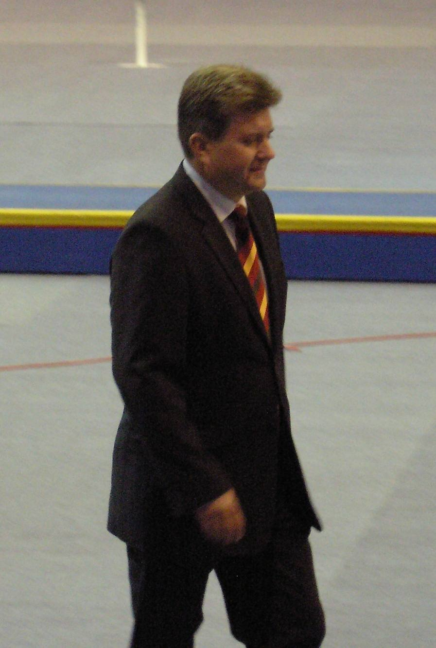 Anatliy Pushkov